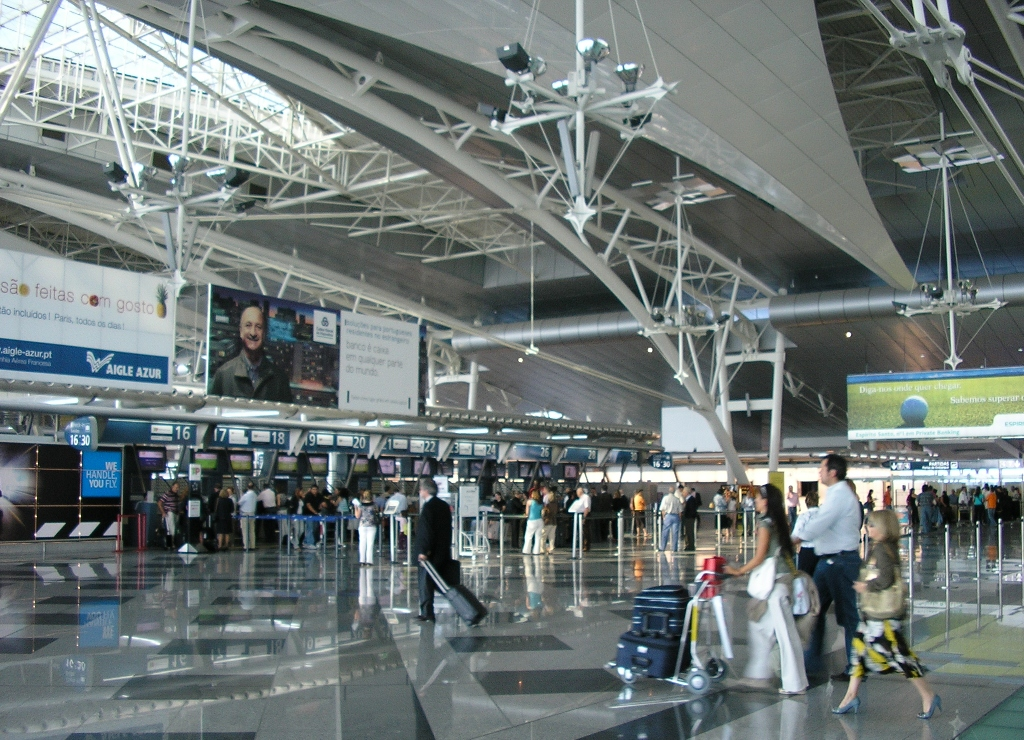 International airport in Porto, Portugal